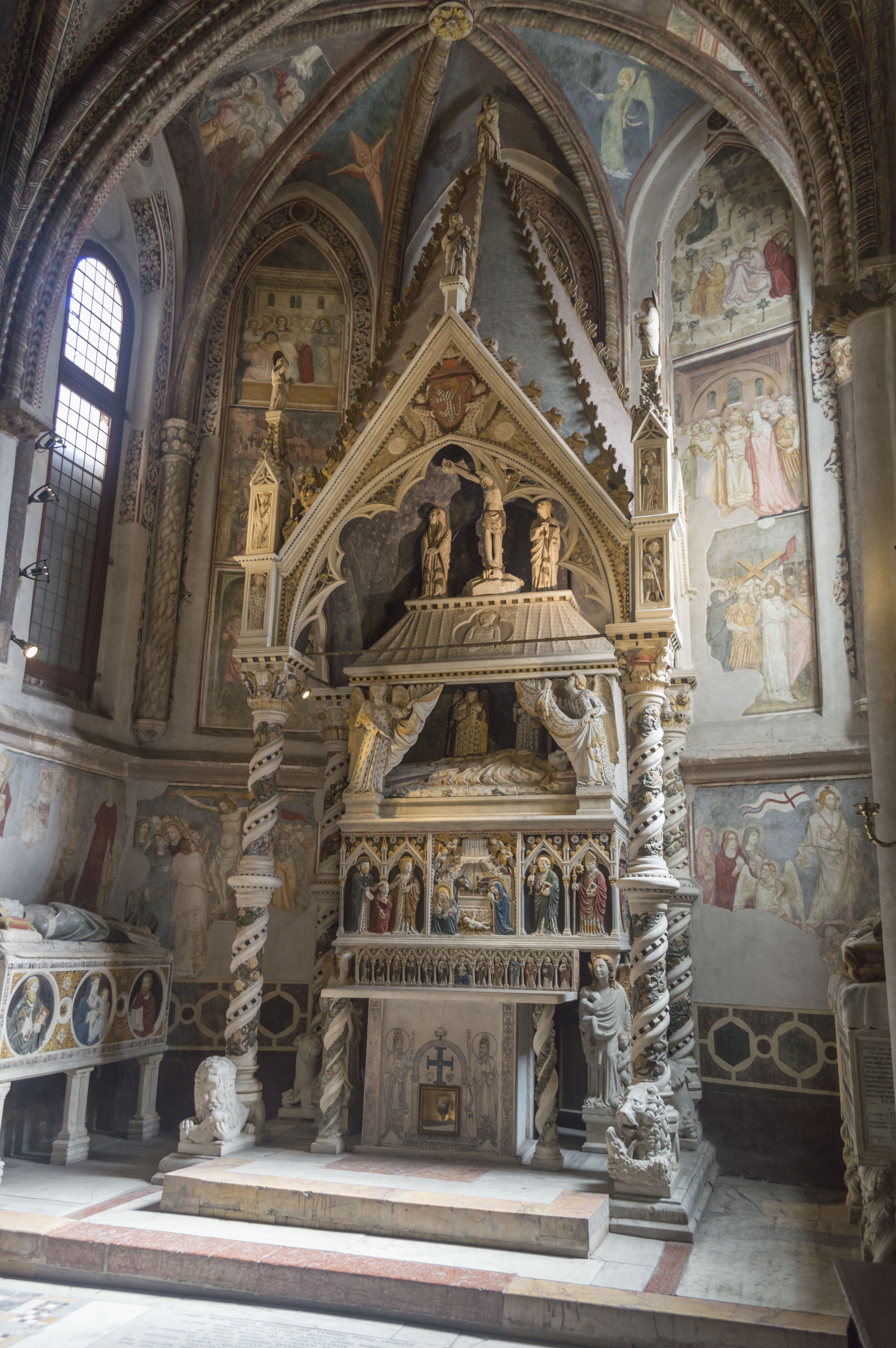 Cappella Capece Minutolo in Naples Cathedral